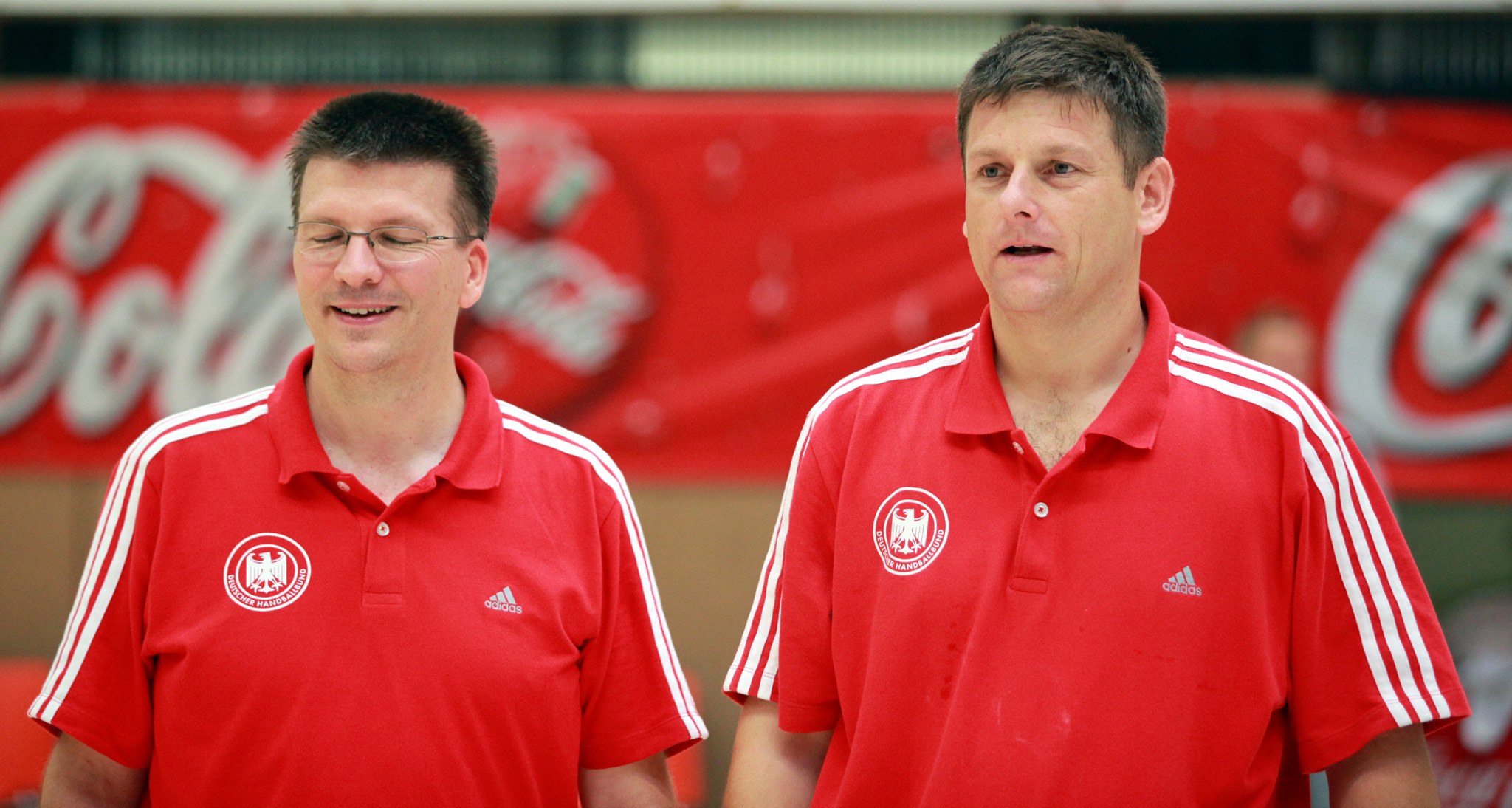 Holger Fleisch und Jürgen Rieber, German handball referees, during the Schlecker Cup 2011.